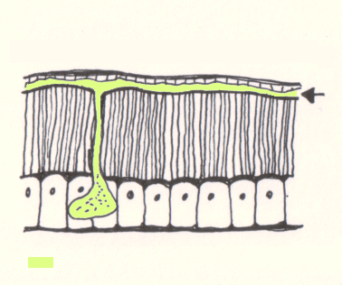 The arthropods moulting - 2.